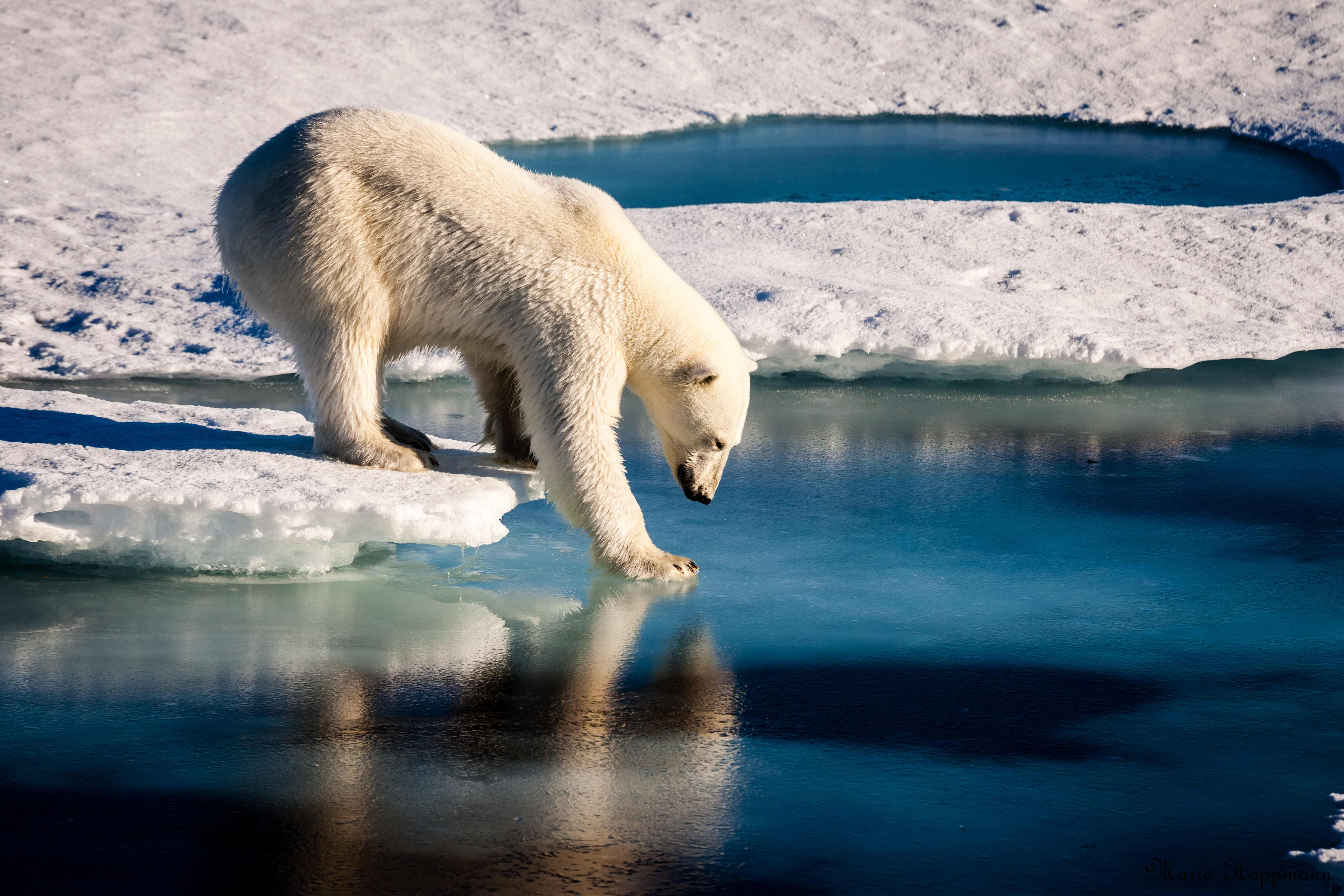 Polar bears already face shorter ice seasons - limiting prime hunting and breeding opportunities. Nineteen separate polar bear subpopulations live throughout the Arctic, spending their winters and springs roaming on sea ice and hunting. The bears have evolved mainly to eat seals, which provide necessary fats and nutrients in the harsh Arctic environment. Polar bears can't outswim their prey, so instead they perch on the ice as a platform and ambush seals at breathing holes or break through the ice to access their dens. The total number of ice-covered days declined at the rate of seven to 19 days per decade between 1979 and 2014. The decline was even greater in the Barents Sea and the Arctic basin. Sea ice concentration during the summer months — an important measure because summertime is when some subpopulations are forced to fast on land — also declined in all regions, by 1 percent to 9 percent per decade. Read more: Photo credit: Mario Hoppmann